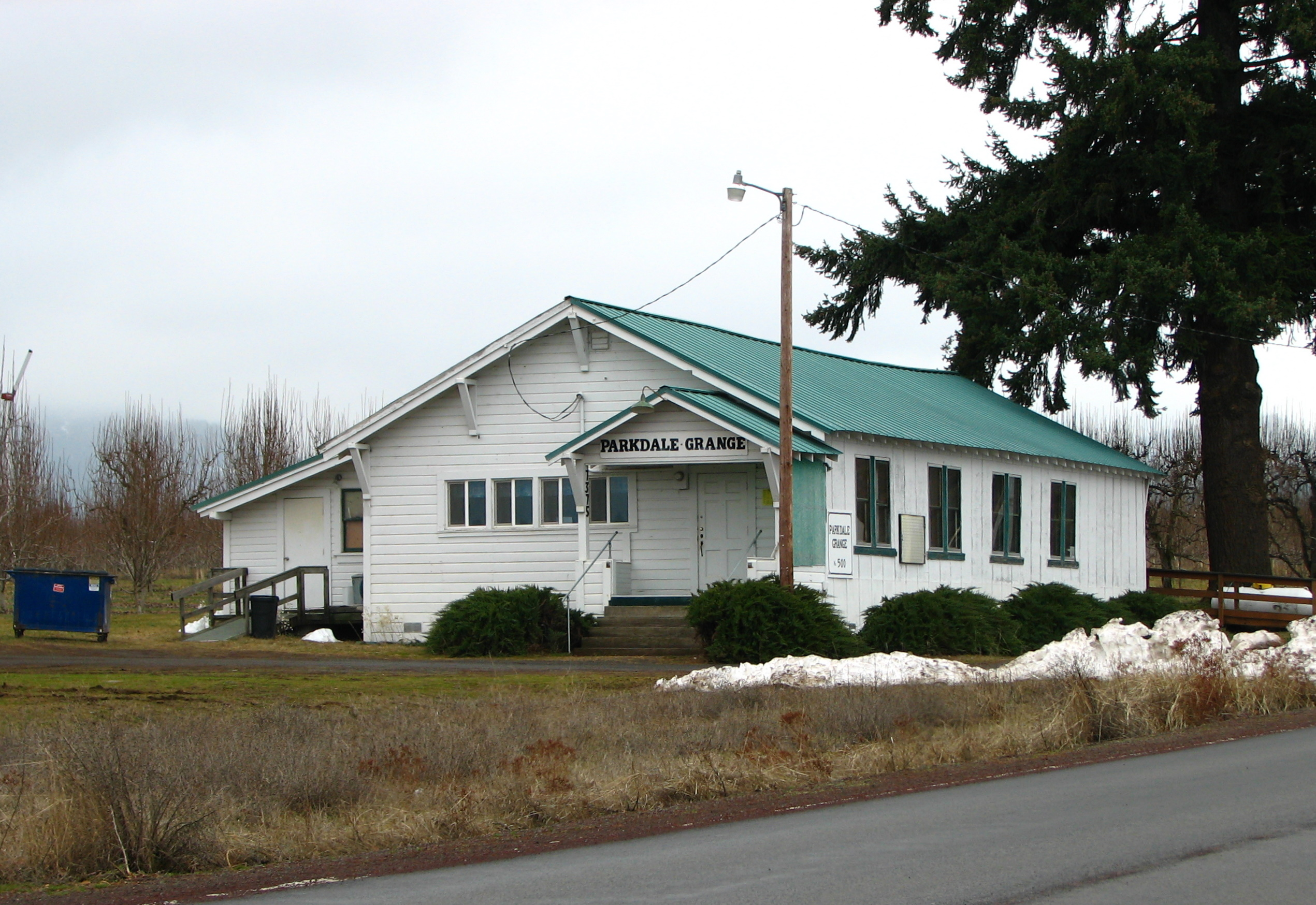 The grange hall near Parkdale, Oregon, United States, in the fertile Hood River Valley.